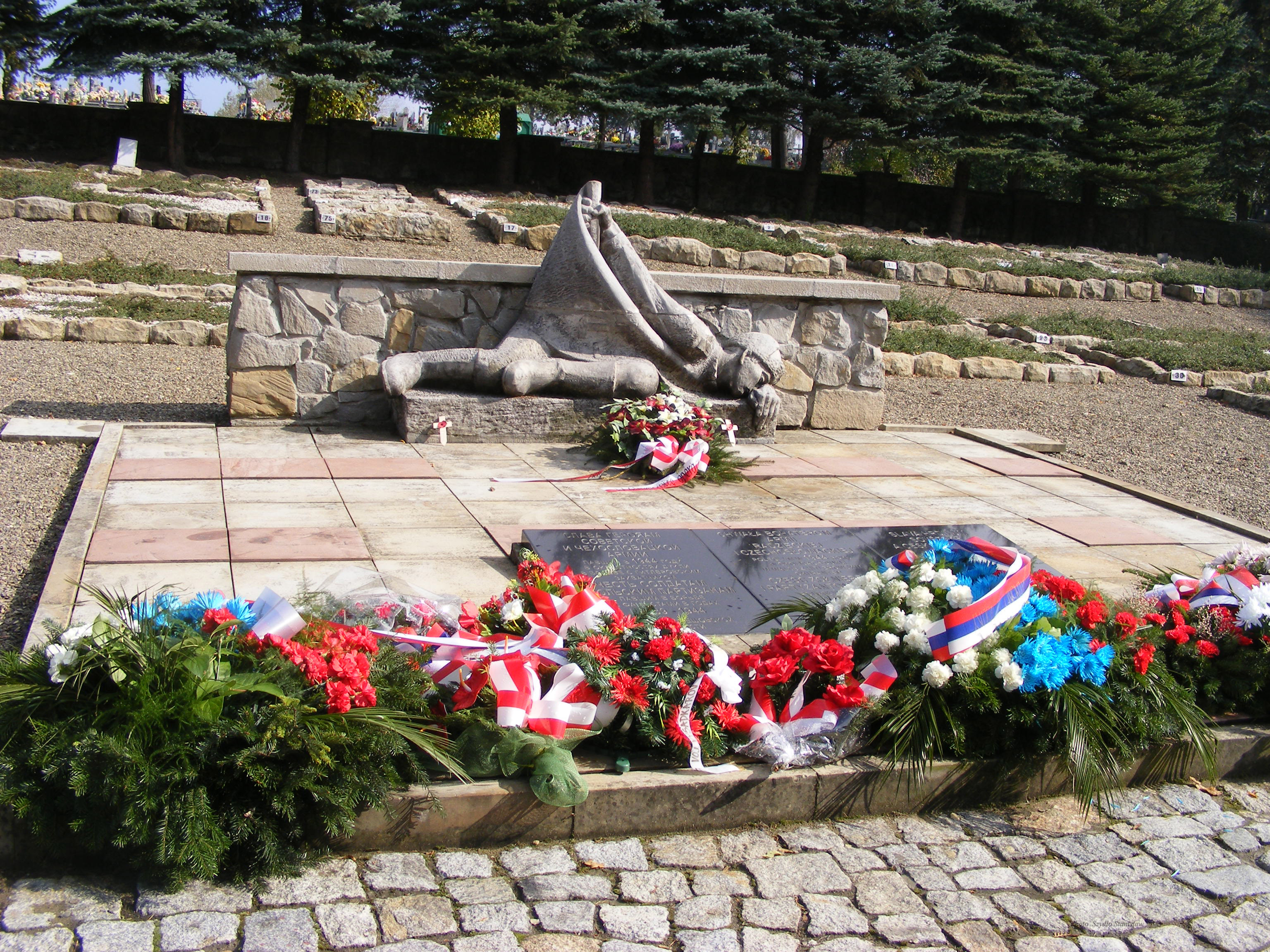 Military cemetery. Mass graves of soldiers Polish, Czechoslovakian, and Russian soldiers killed in Dukla area in 1944.